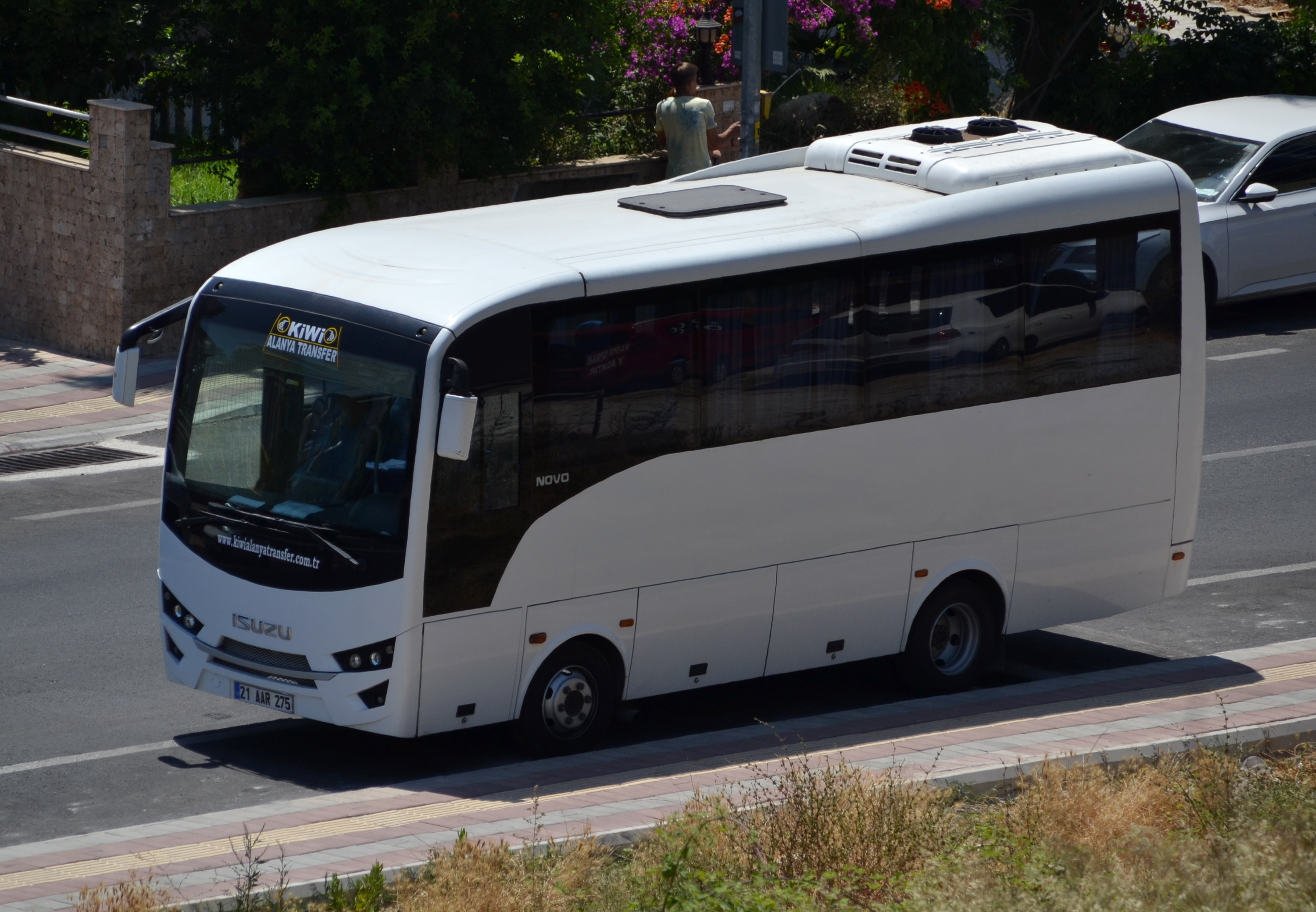 Isuzu Novo midibus in Alanya, Turkey